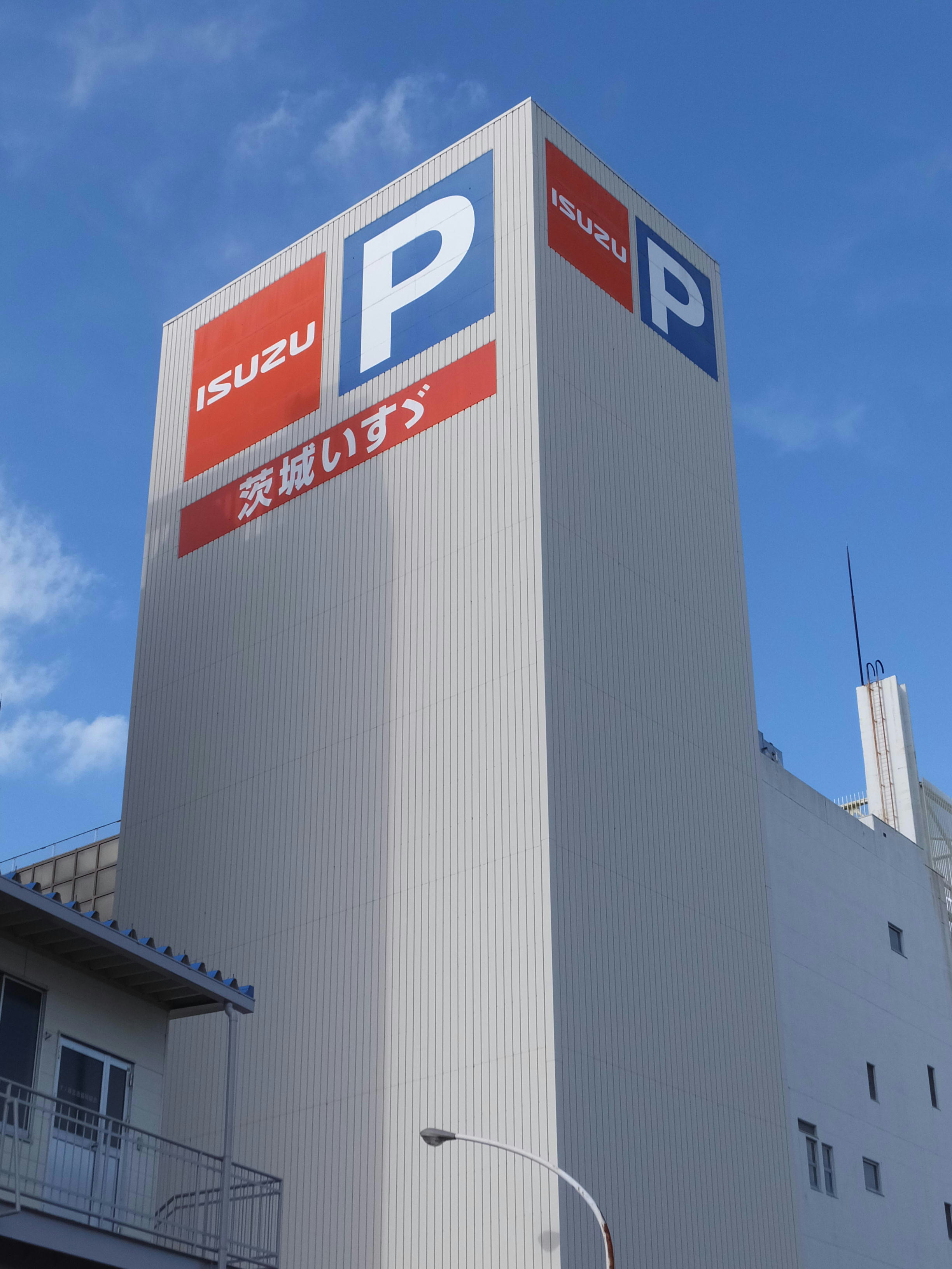 Multilevel car parking tower adjacent to Ibaraki Isuzu.